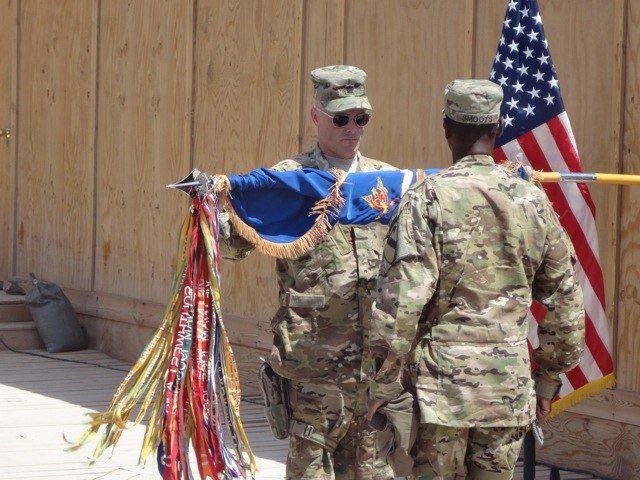 The Battalion Commander and Command Sergeant Major uncase the Battalion's Colors at FOB Sharana, Afghanistan 24 May 2001